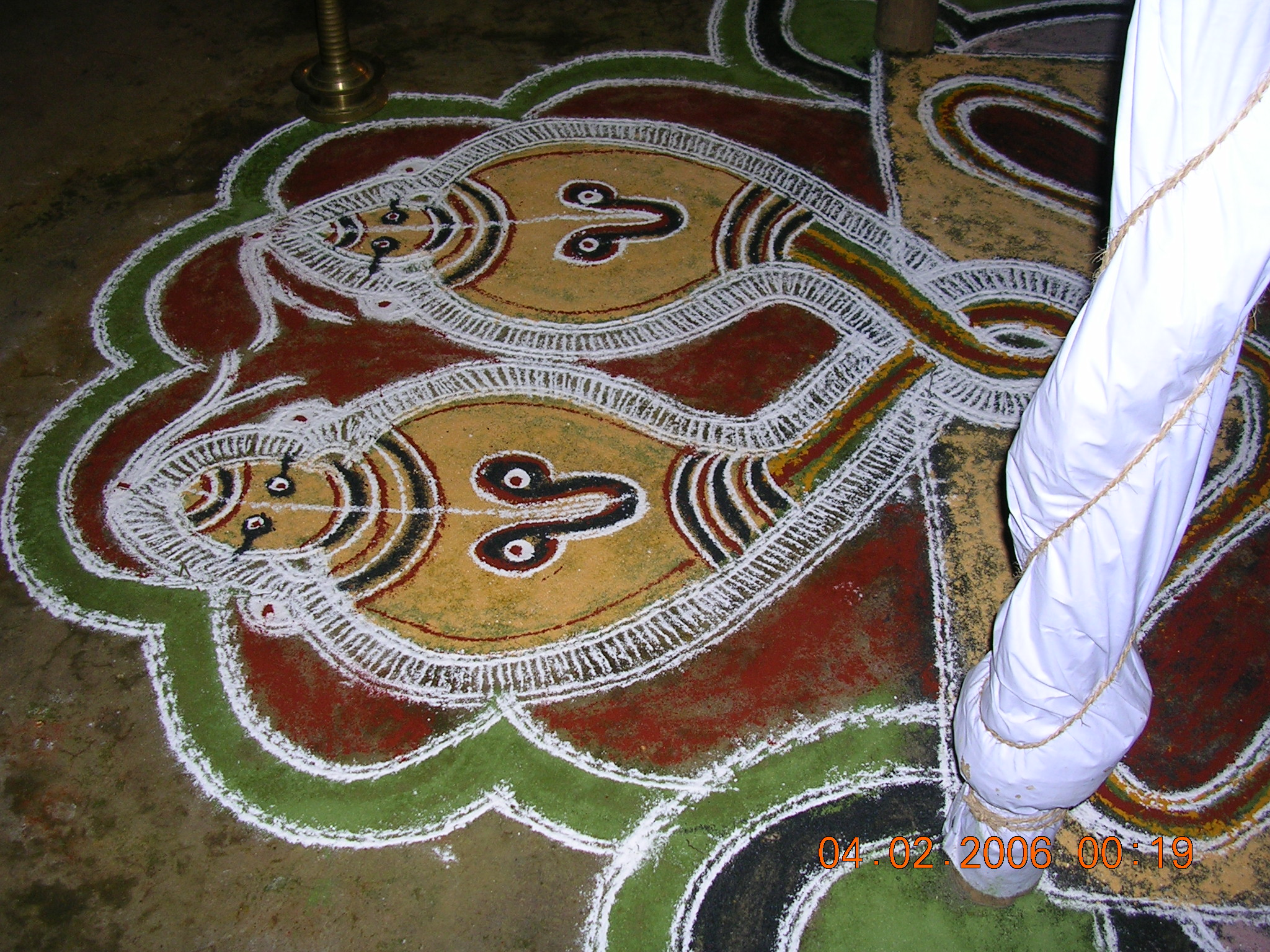 Nagakkalam, the traditional kolam in Sarpam Thullal